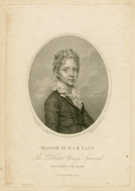 Antoine Cardon (after John Smart). Michael Rophino Lacy. 1807. Engraving.